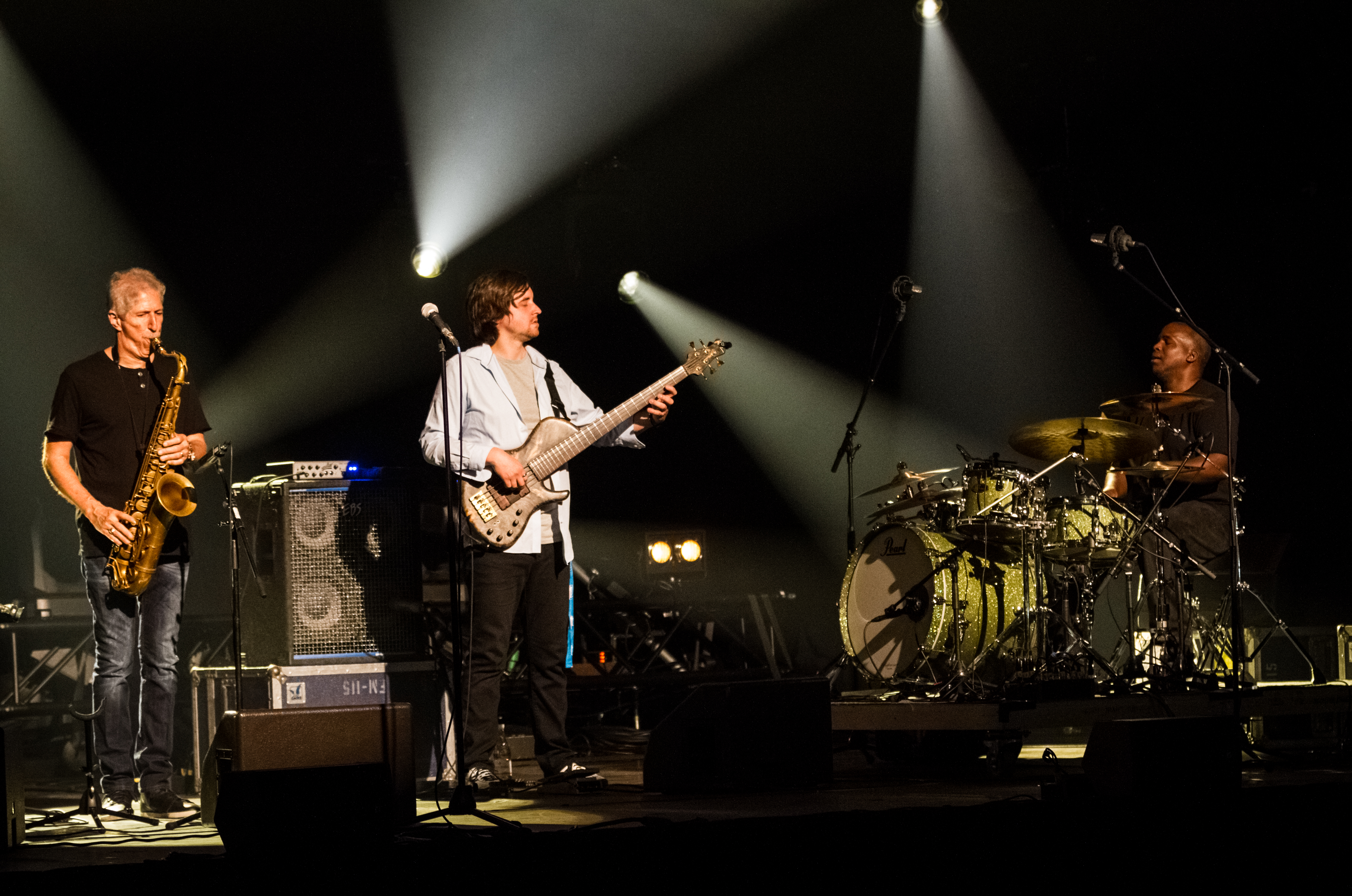 Yellowjackets - Leverkusener Jazztage 2015